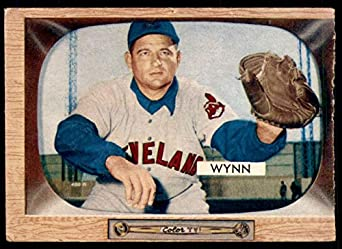 Baseball card of Early Wynn with the Cleveland Indians, card #38 in the 1955 Bowman set.